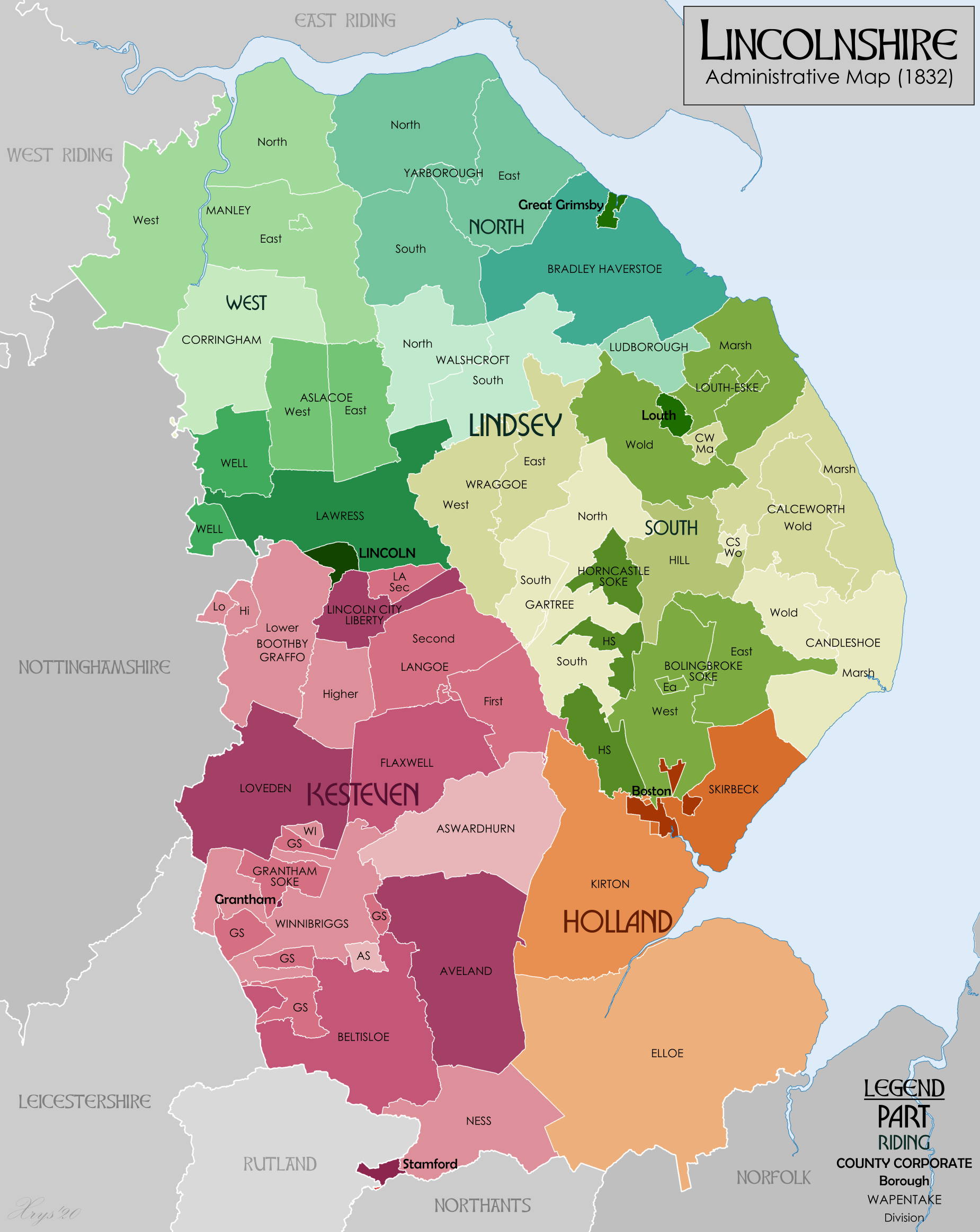 Administrative map of Lincolnshire in 1832 showing Wapentakes and Divisions. Also showing extant Boroughs and the County Corporate of Lincoln. Wapentake boundaries from University of Nottingham English Place Name Society. Source data for parish boundaries - Kain, R.J.P., and Oliver, R.R. (2001) "Historic parishes of England and Wales". Unit names and Borough Boundaries from Vision of Britain website and The First Report of the Commissioners Appointed to Inquire into the Municipal Boundaries in England and Wales, Part IV EASTERN CIRCUITS (1835)